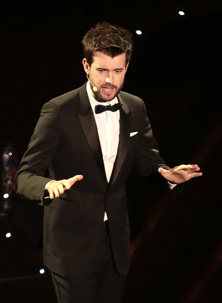 British fashion awards